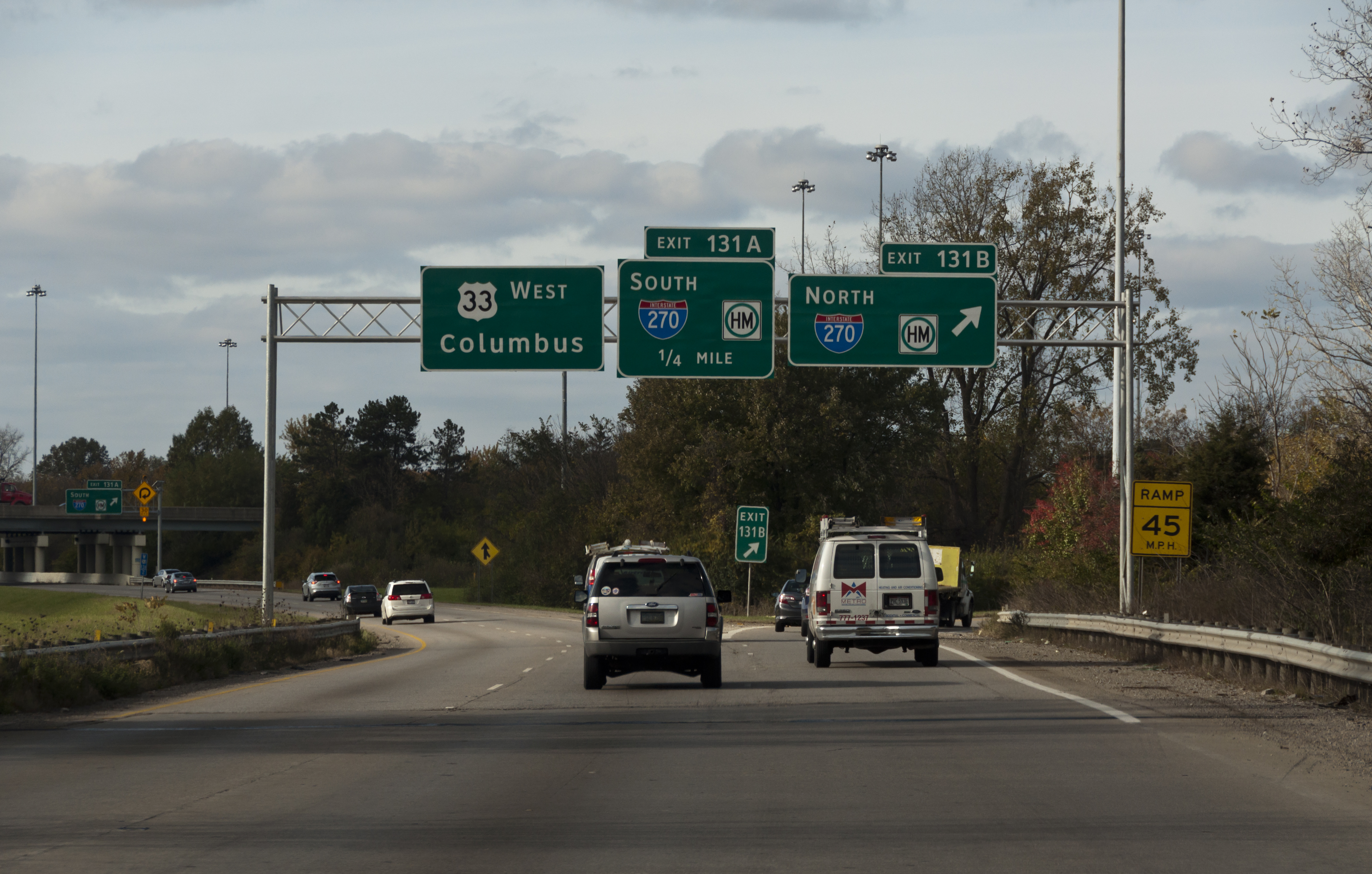 US Route 33 northbound at the Interstate 270 interchange.